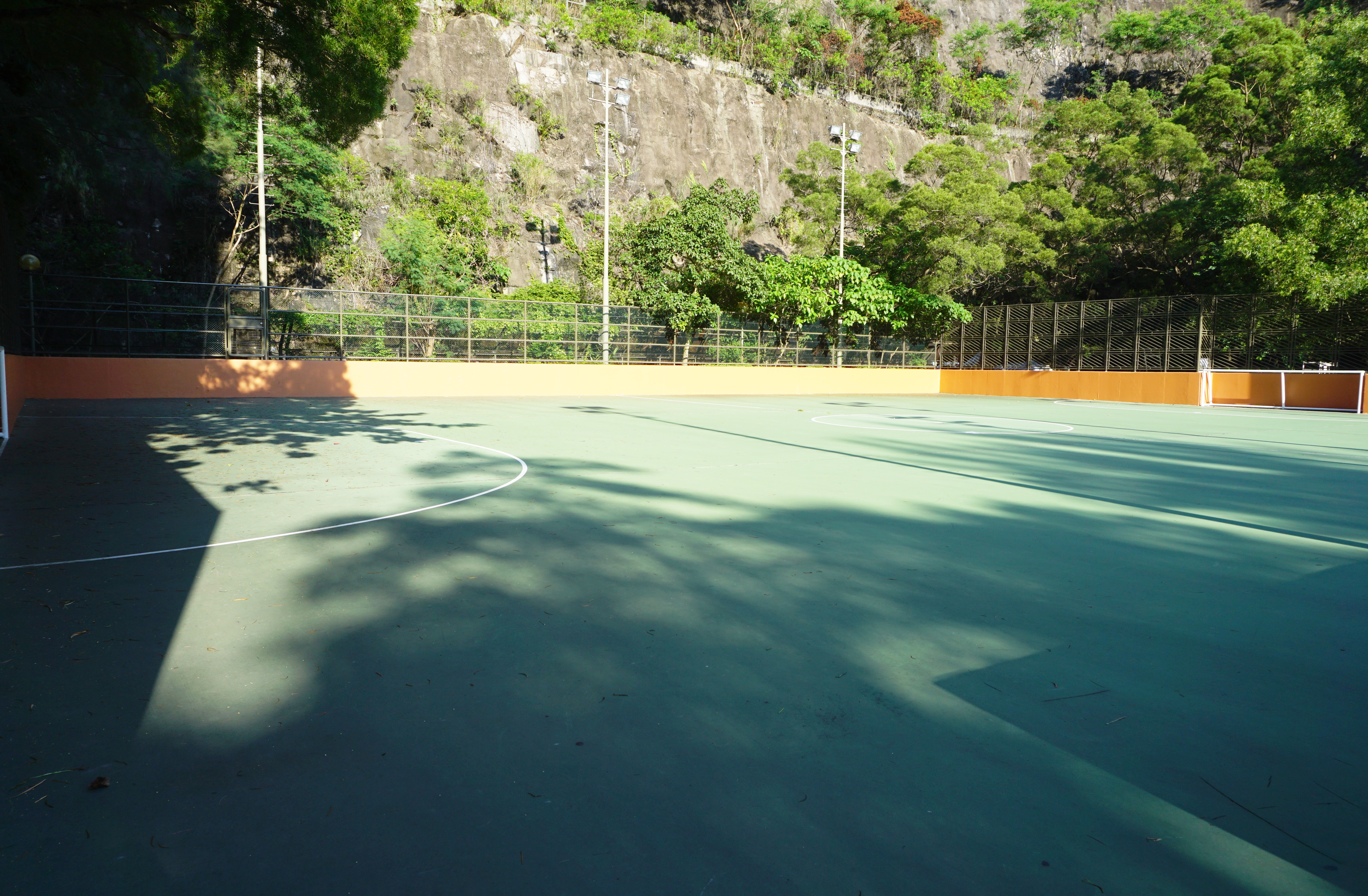 Shek Lei Estate in Kwai Chung, Hong Kong.